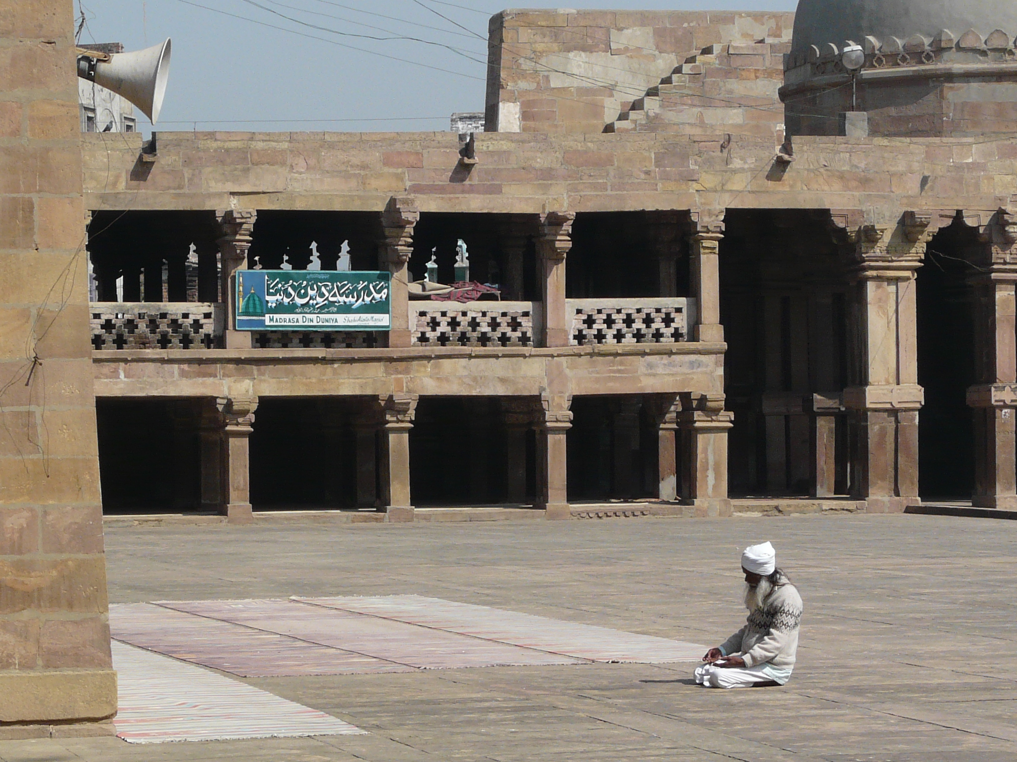 Central courtyard, Atala Masjid, Jaunpur.